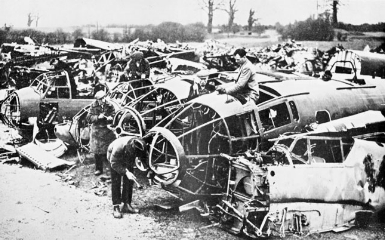 Wrecked German aircraft (Me 109E, He 111 and Ju 88A) in Britian, 1940.